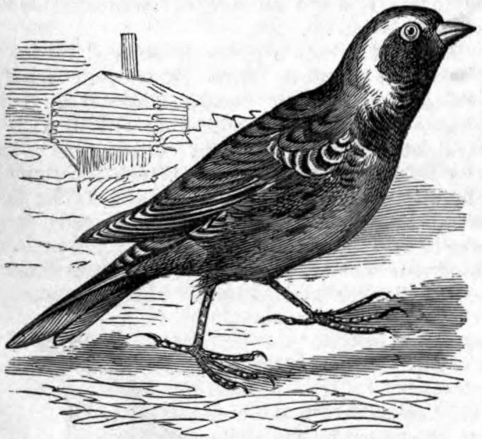 Wood engraving of a Lark Bunting (Plectrophanes Lapponicus).